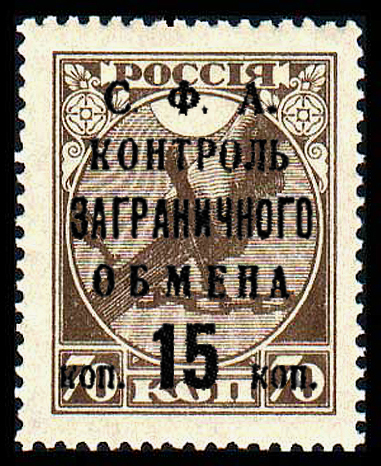 USSR control stamp, 1932, 15 k.